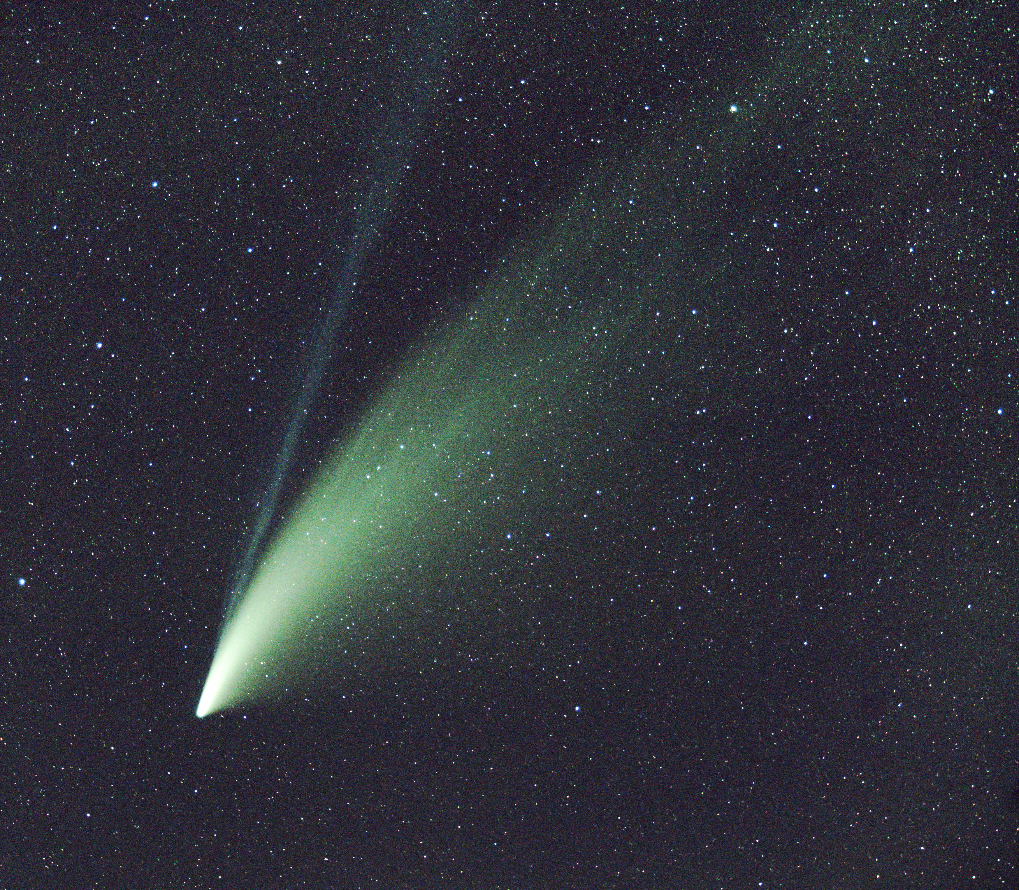 Great Comet C/2020 F3 (NEOWISE) 17-07-2020 20:51:57 UTC observatory La Cañada on a stack of 7 photos 30 seconds each at ISO 3200,camera Canon 1D MKIV, lens 70mm F2.8, tracked on LX200R